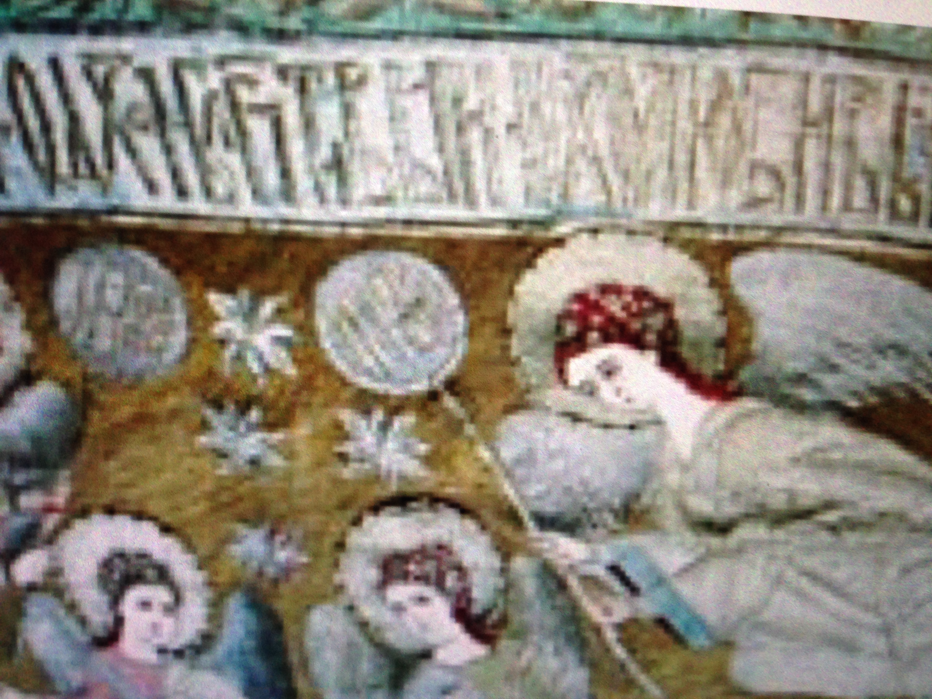 Embroidery from Mileševo, Serbia, detail.